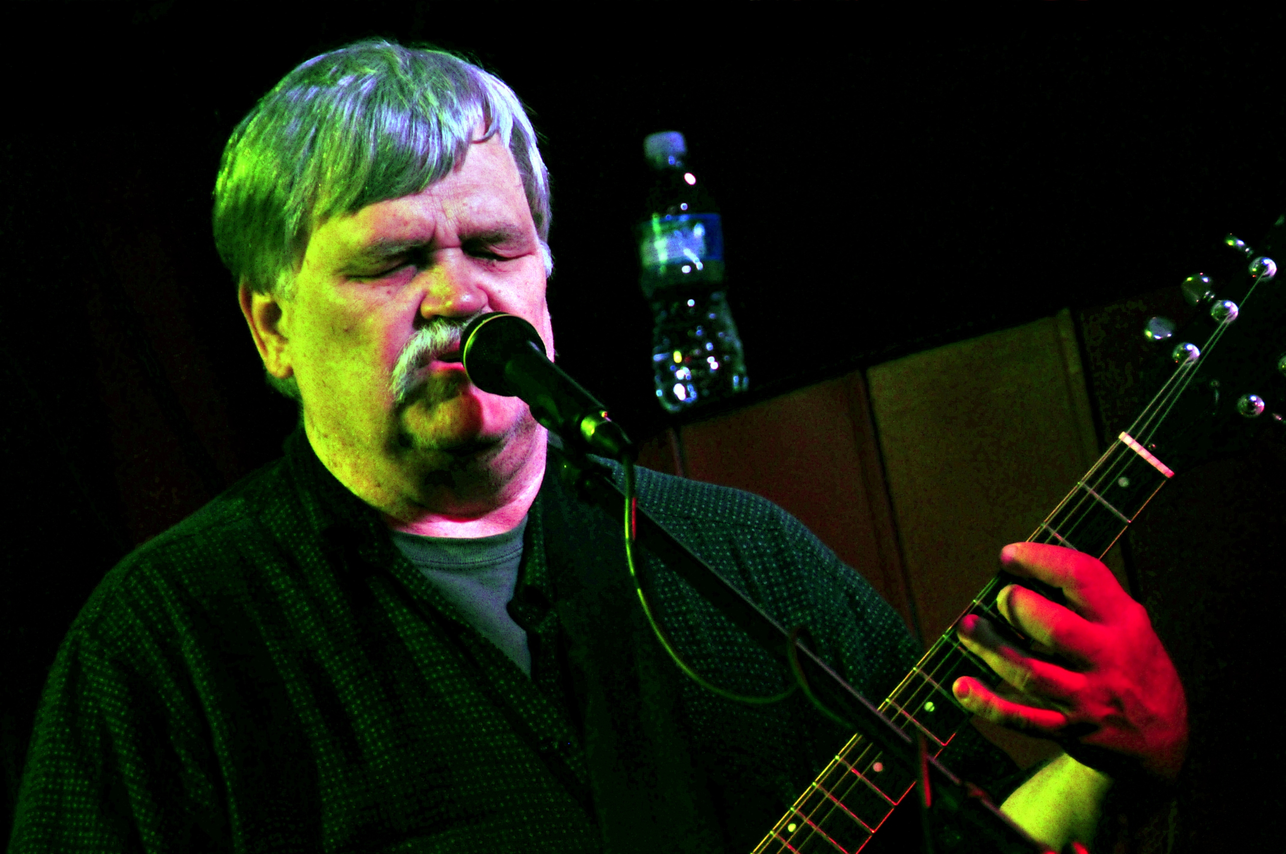 Col Bruce Hampton playing at the Lantern, in Blacksburg VA 8/1/08